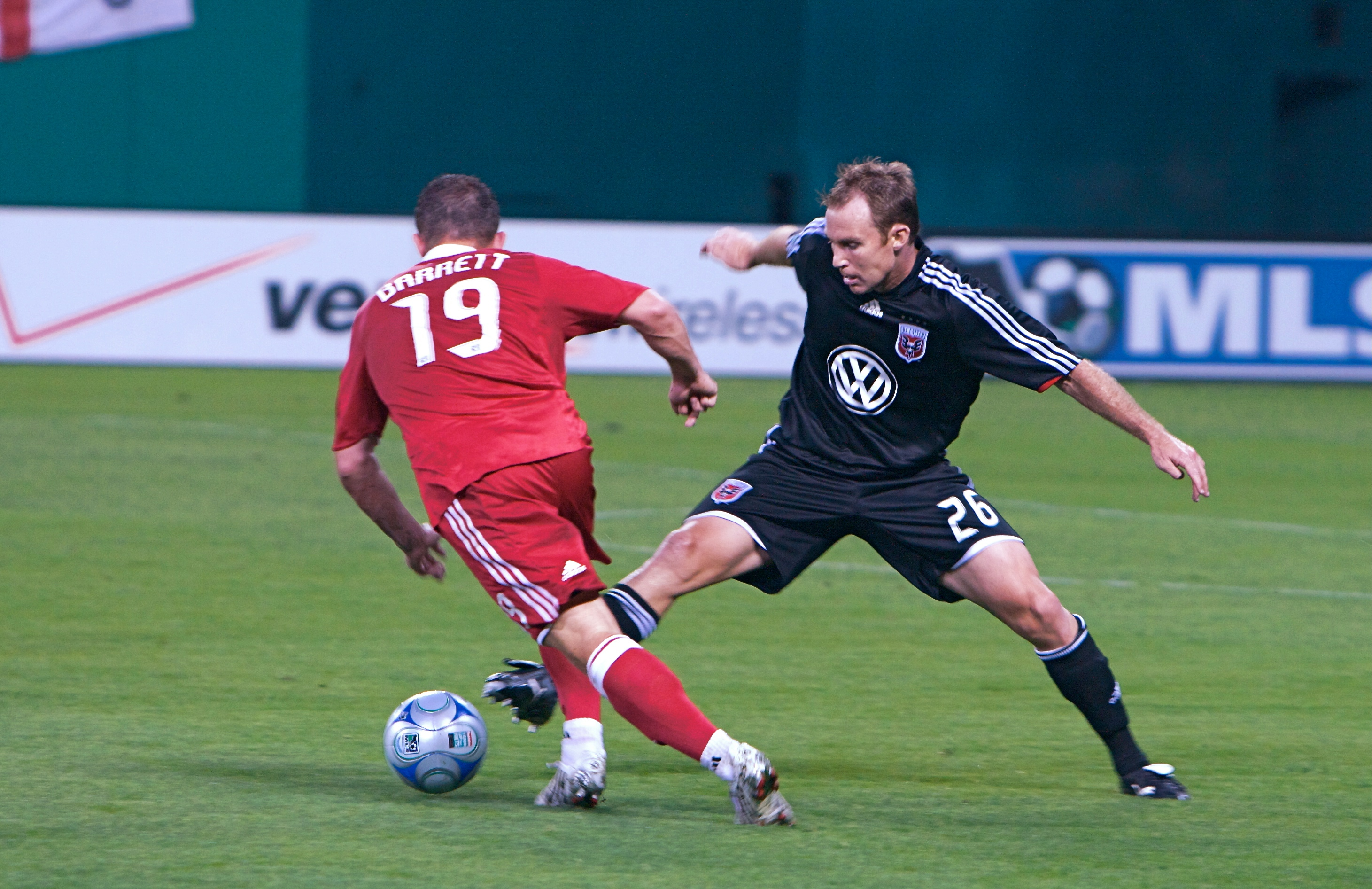 D.C. United defender, Bryan Namoff, defending against Chicago Fire forward, Chad Barrett, at Robert F. Kennedy Memorial Stadium on May 8, 2008. The Fire beat the United 2-0.